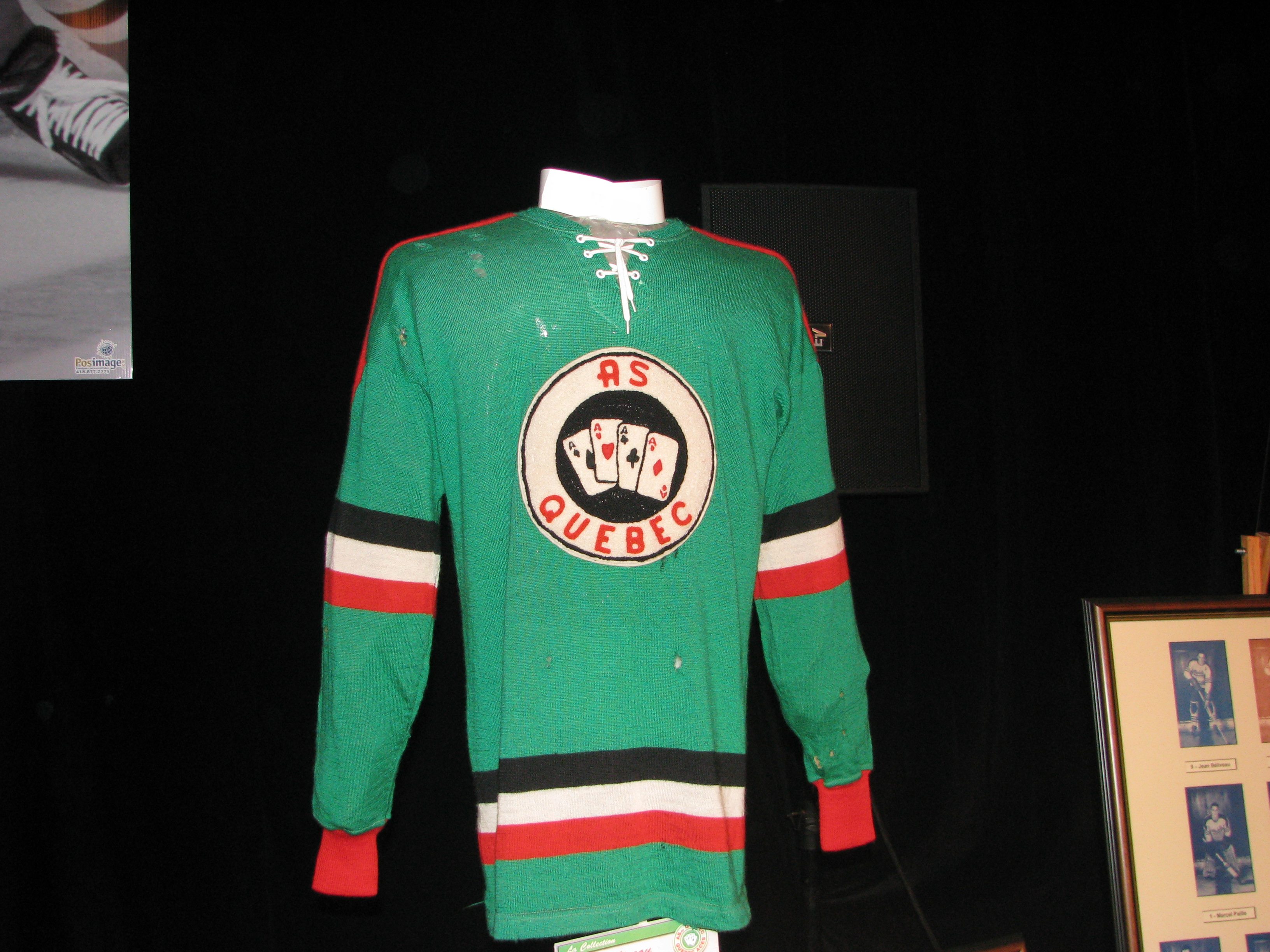 Quebec Aces jersey, shown at the IIHF World Cahmpionship in Quebec City, Canada